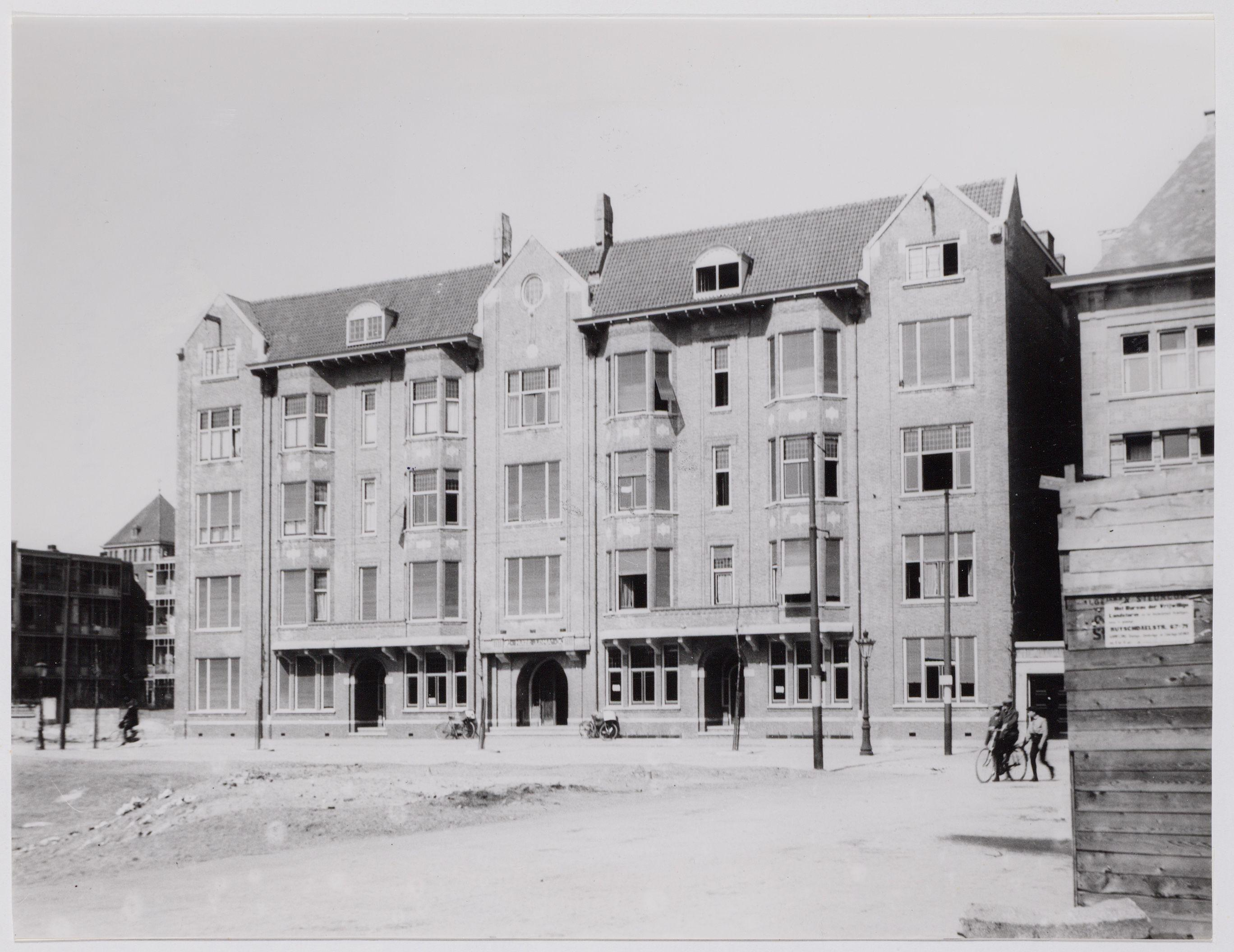 Anonymous. Loma House, De Lairessestraat 4-8, Amsterdam. 1914-1918. Photo. Amsterdam, City Archives (inv.nr. 010003017184).